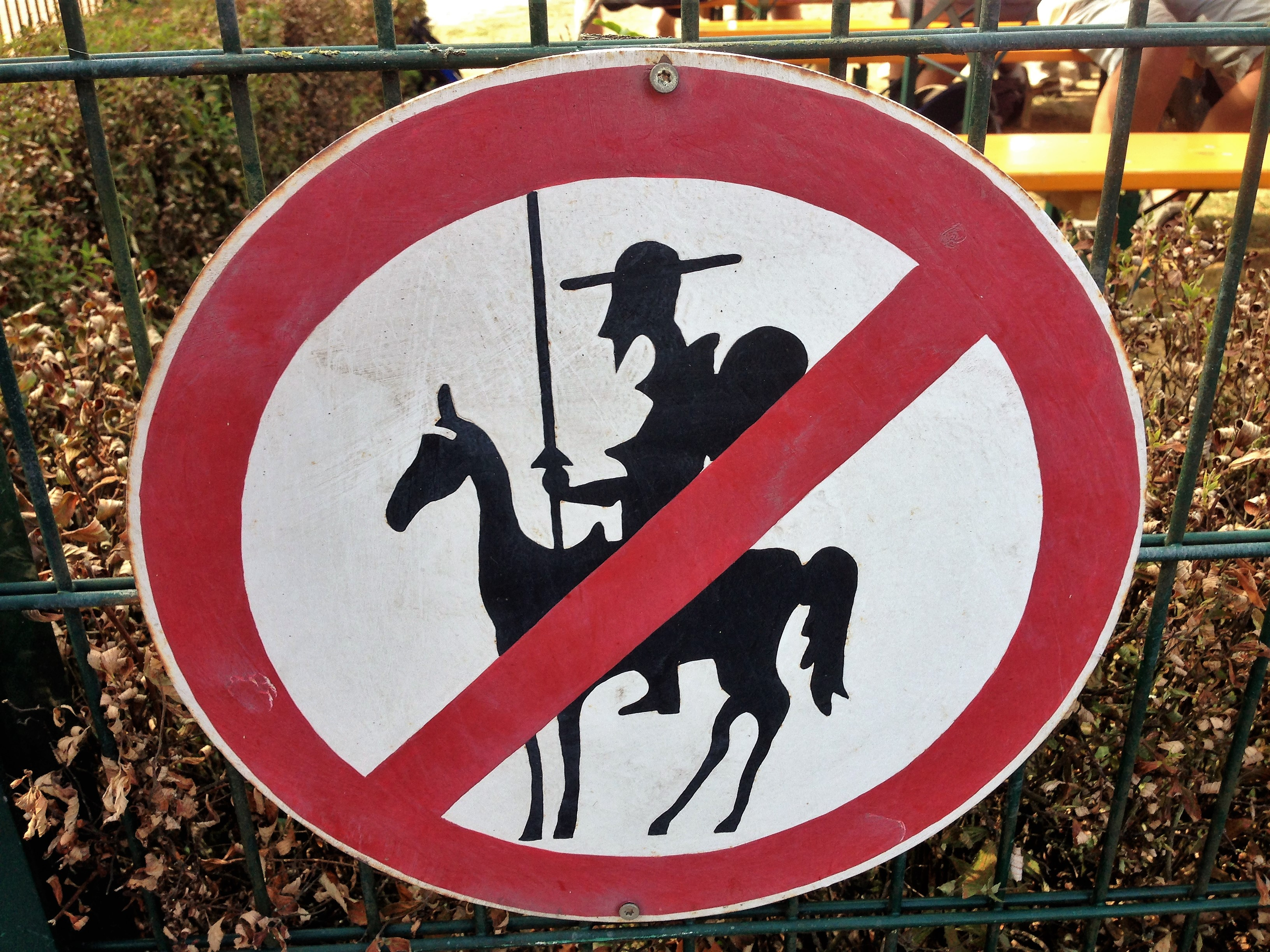 Fight against wings of windmill forbidden. Sign at a fence in front of the windmill in Schwege (town of Dinklage in Landkreis Vechta / Lower Saxony)